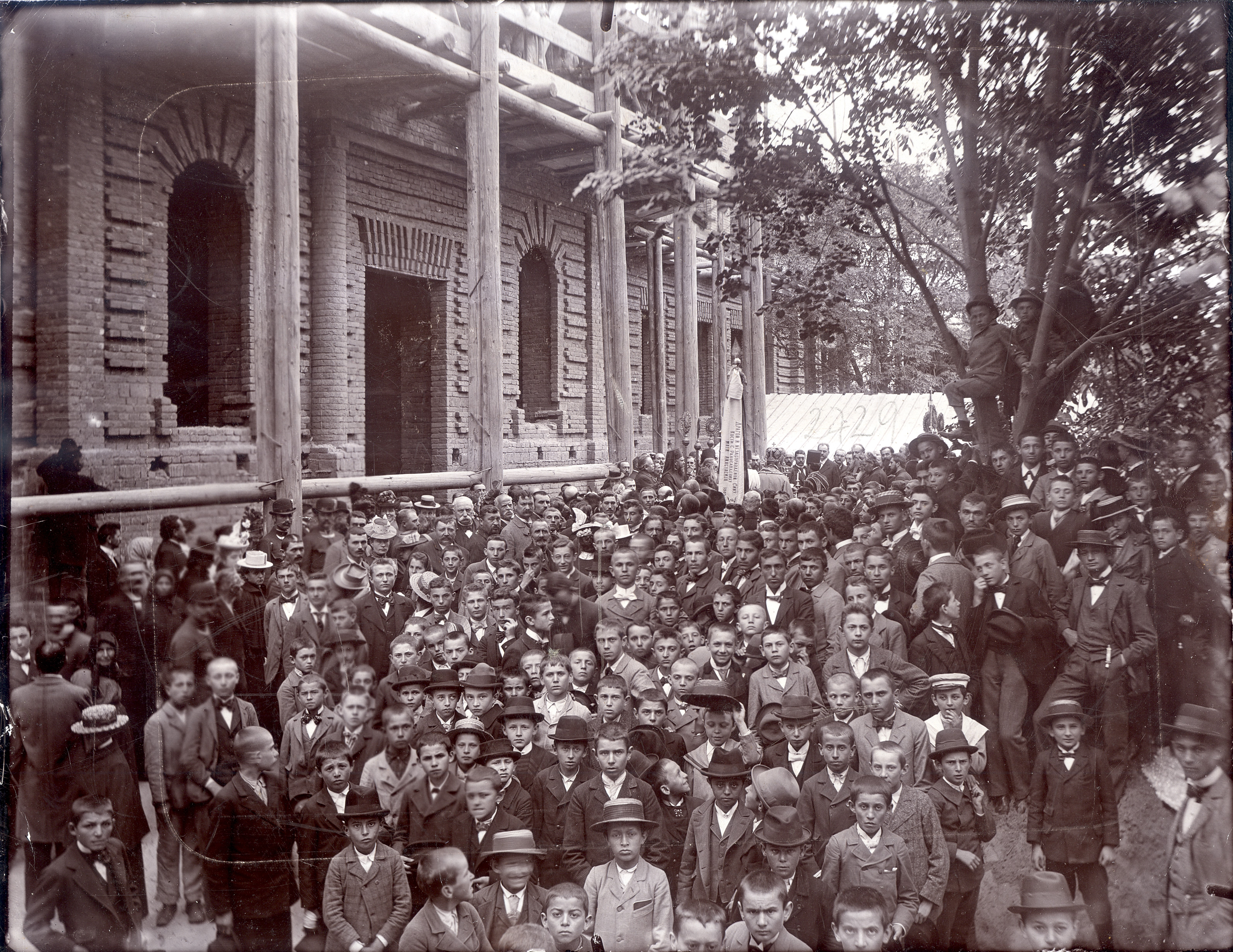 Consecration of the new building of the Serbian Orthodox gymnasium in Novi Sad (1901), inventory number 708. Srpski (latinica): Osvećenje nove zgrade Srpske pravoslavne velike gimnazije u Novom Sadu (1901), inventarski broj 708.